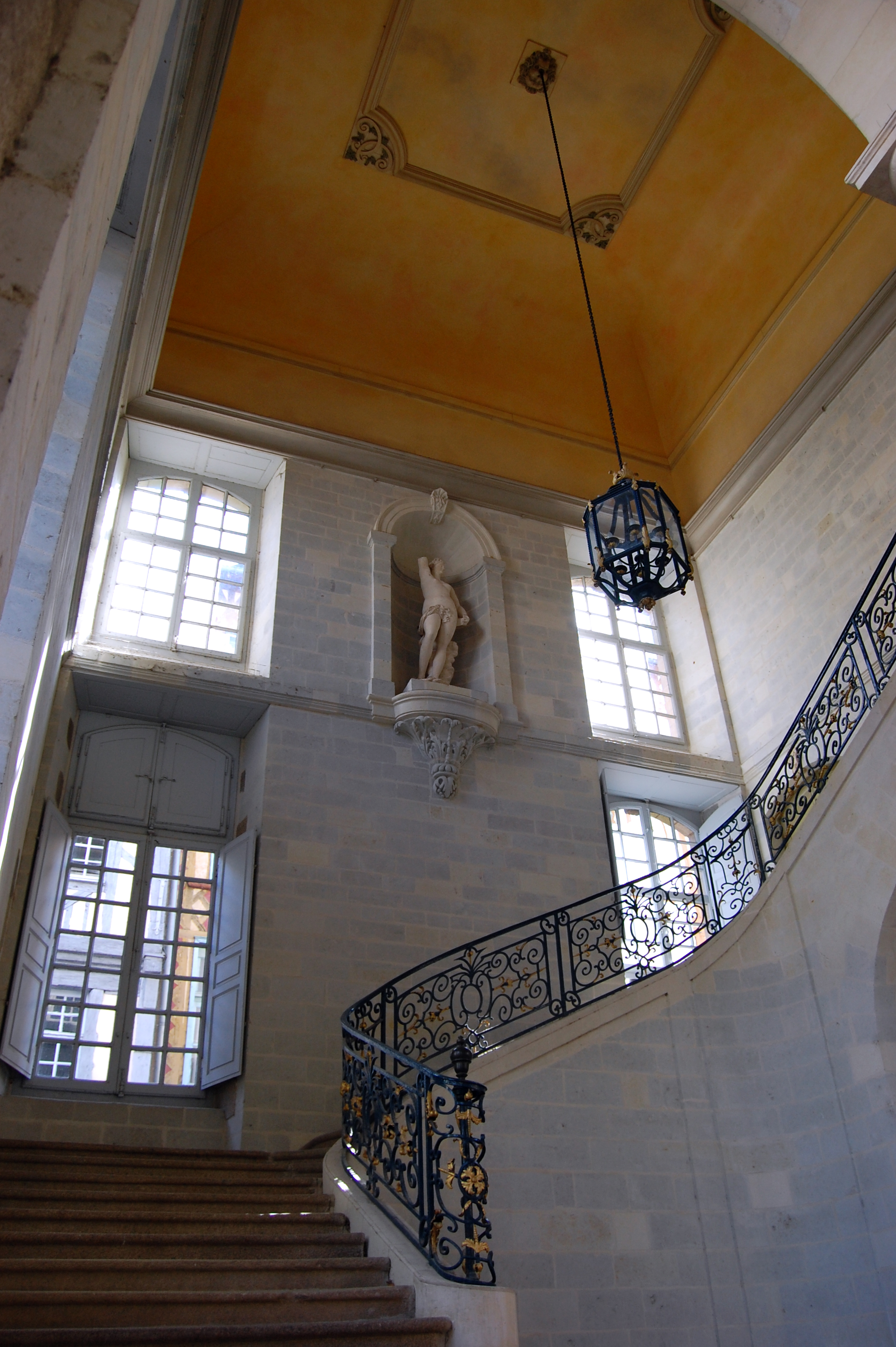 Honour stairways of Hôtel de Blossac